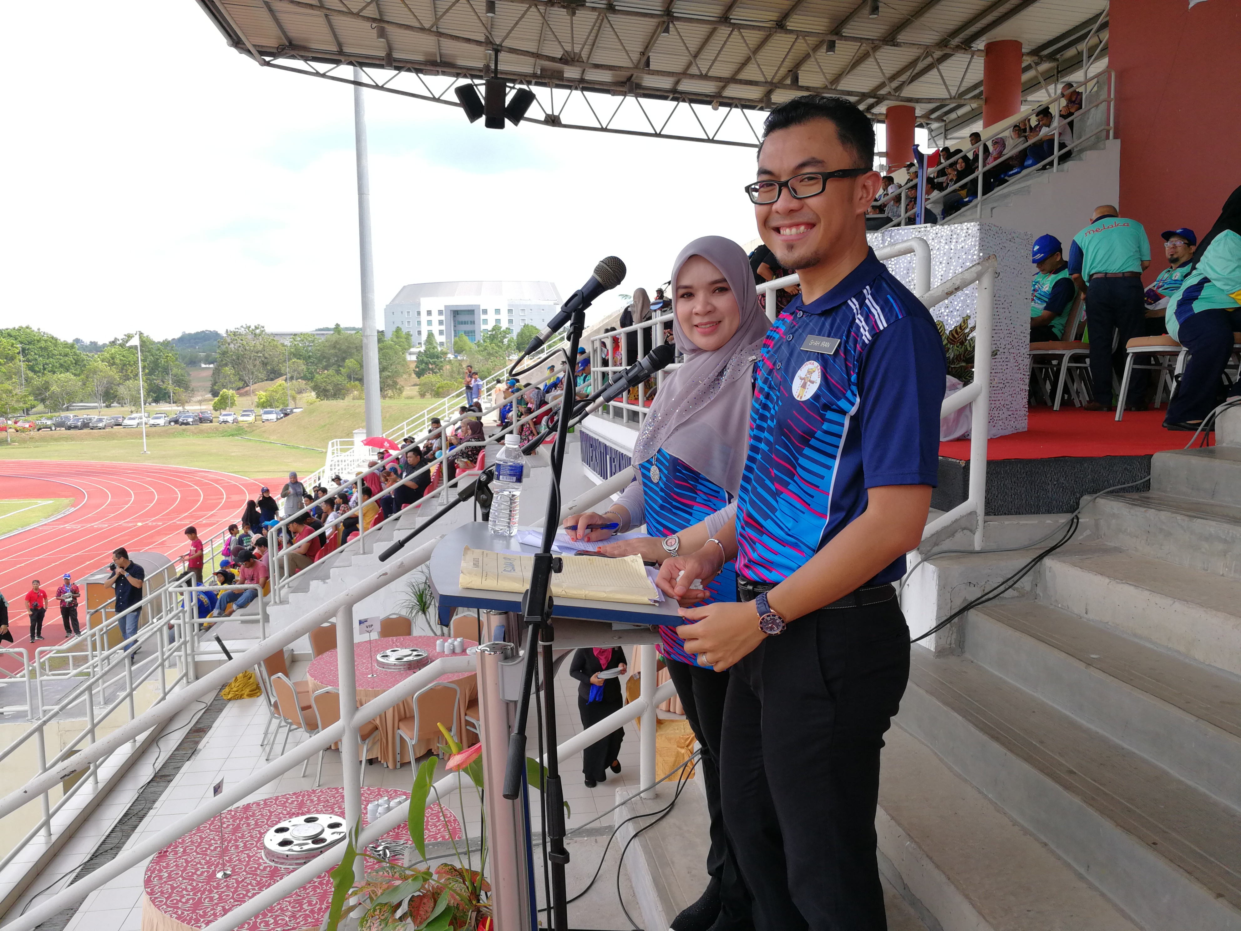 Pesuma32 MC of Opening Ceremony